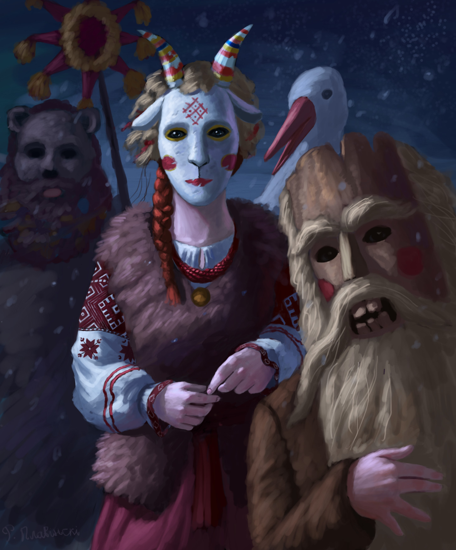 Kaliady. The Ancient Belarusian Holiday